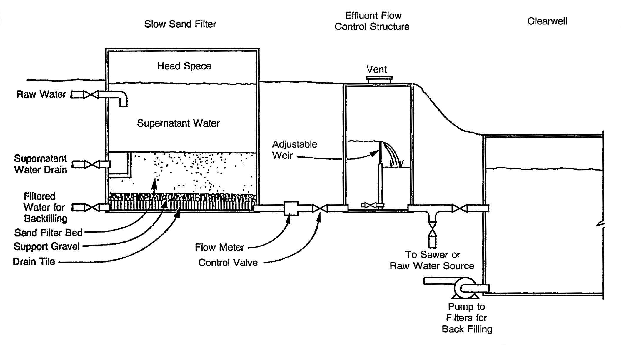 Diagram of a housed slow sand filter for water purification